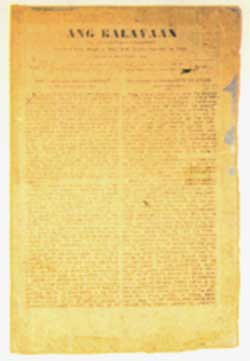 Facsimile of the first page of Kalayaan, Katipunan's only newspaper. Dated January 1896.